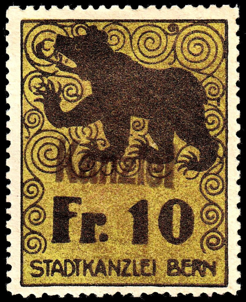 Switzerland Bern City 1930 revenue 10Fr - 77B. Stadtkanzlei (chancellery).